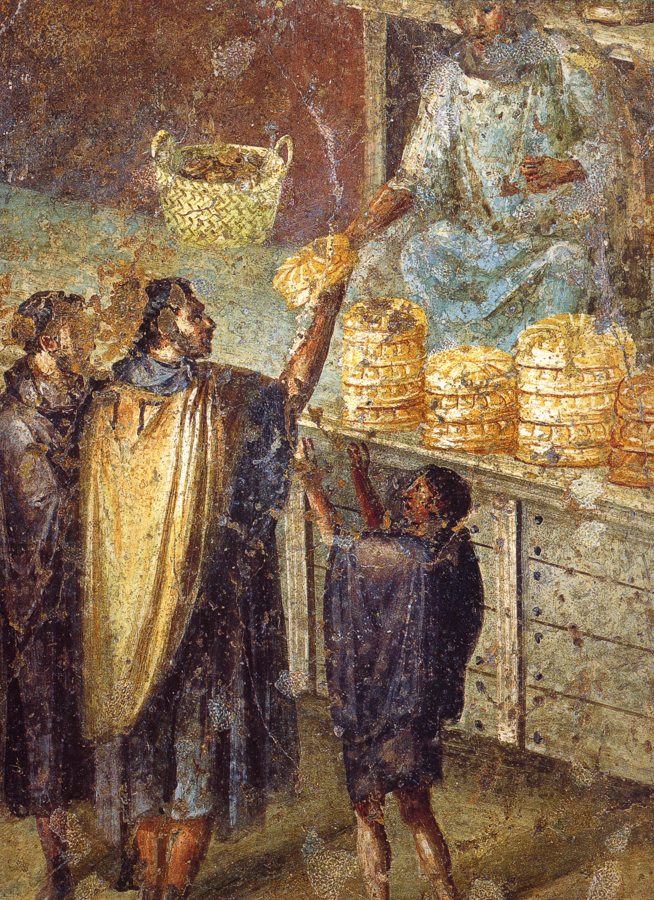 Sale of bread at a market stall. Roman fresco from the Praedia of Julia Felix in Pompeii. Museo Archeologico Nazionale (Naples)